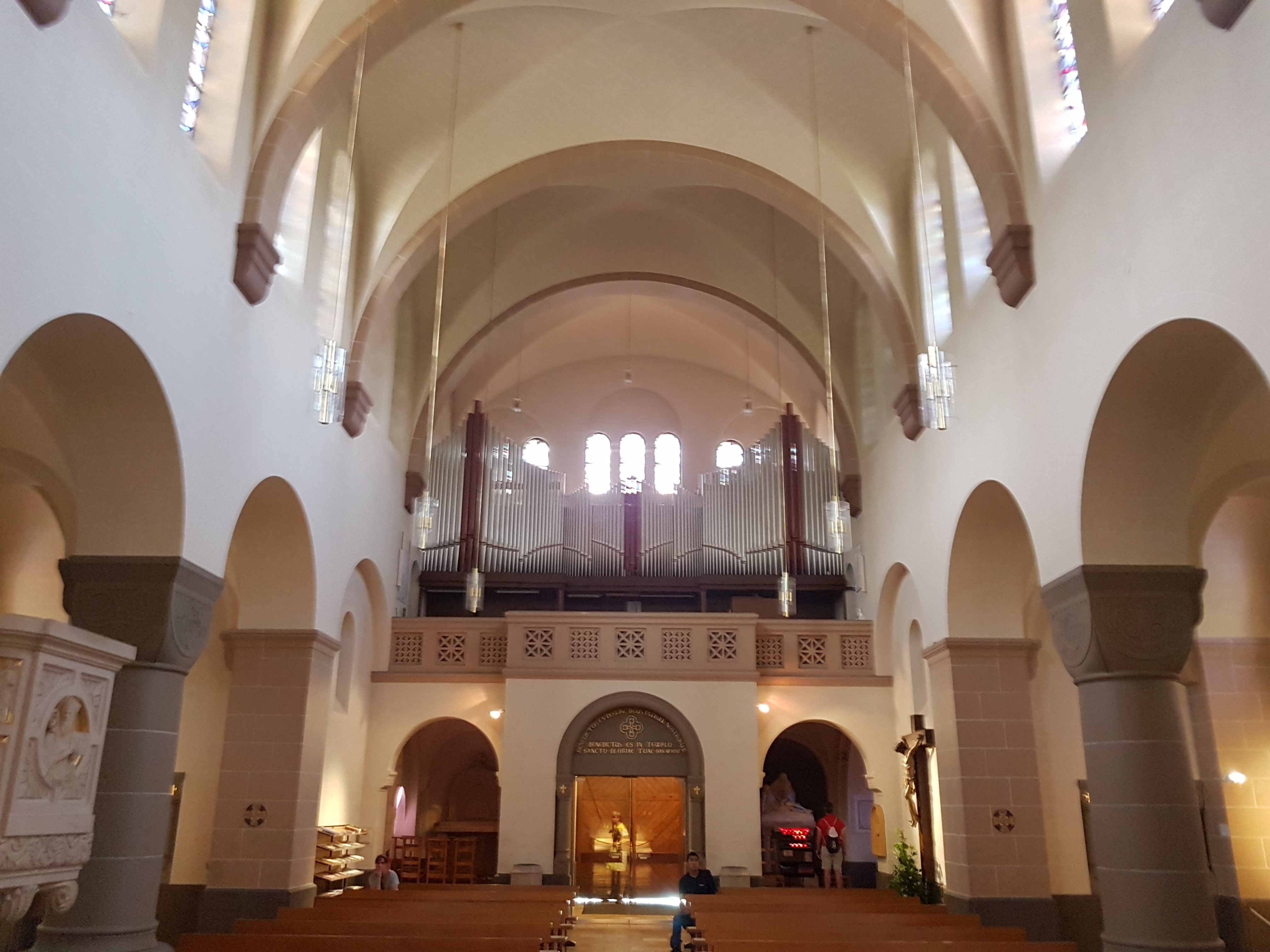 Interior of the Roman Catholic Church in Clervaux (also: Church of St. Cosmas and Damian, lux .: Kierch zu Klierf; french: Église Saints-Côme-et-Damien, german: Kirche in Clerf or Kirche St. Cosmas und Damian) in the Montée de l'église (street) in the municipality of Clervaux' (lux.: Klierf